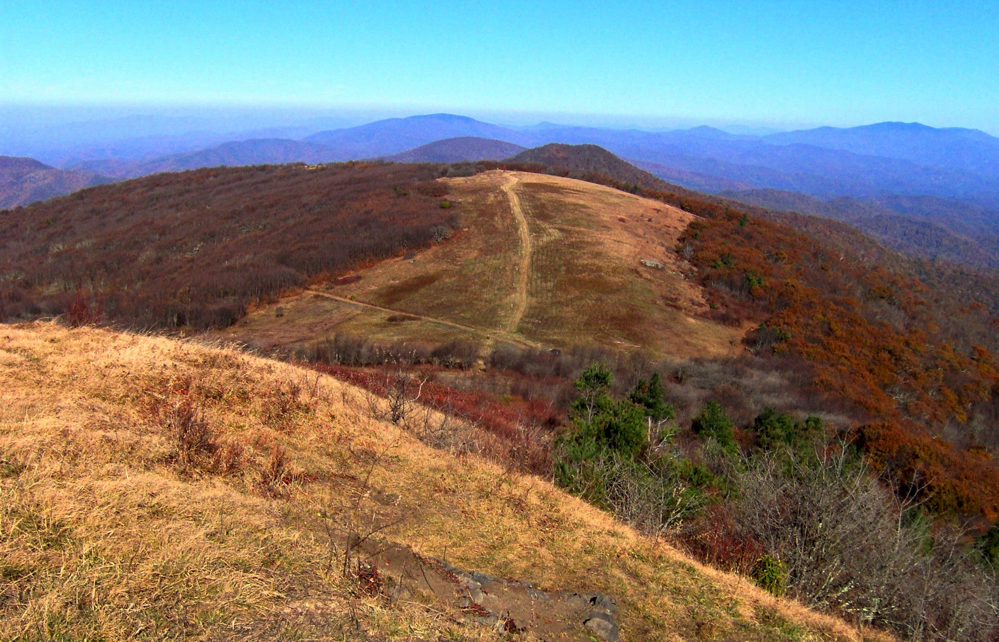 View looking north from the summit of Big Bald along the border between the U.S. states of Tennessee and North Carolina. The path of the Appalachian Trail is visible below.